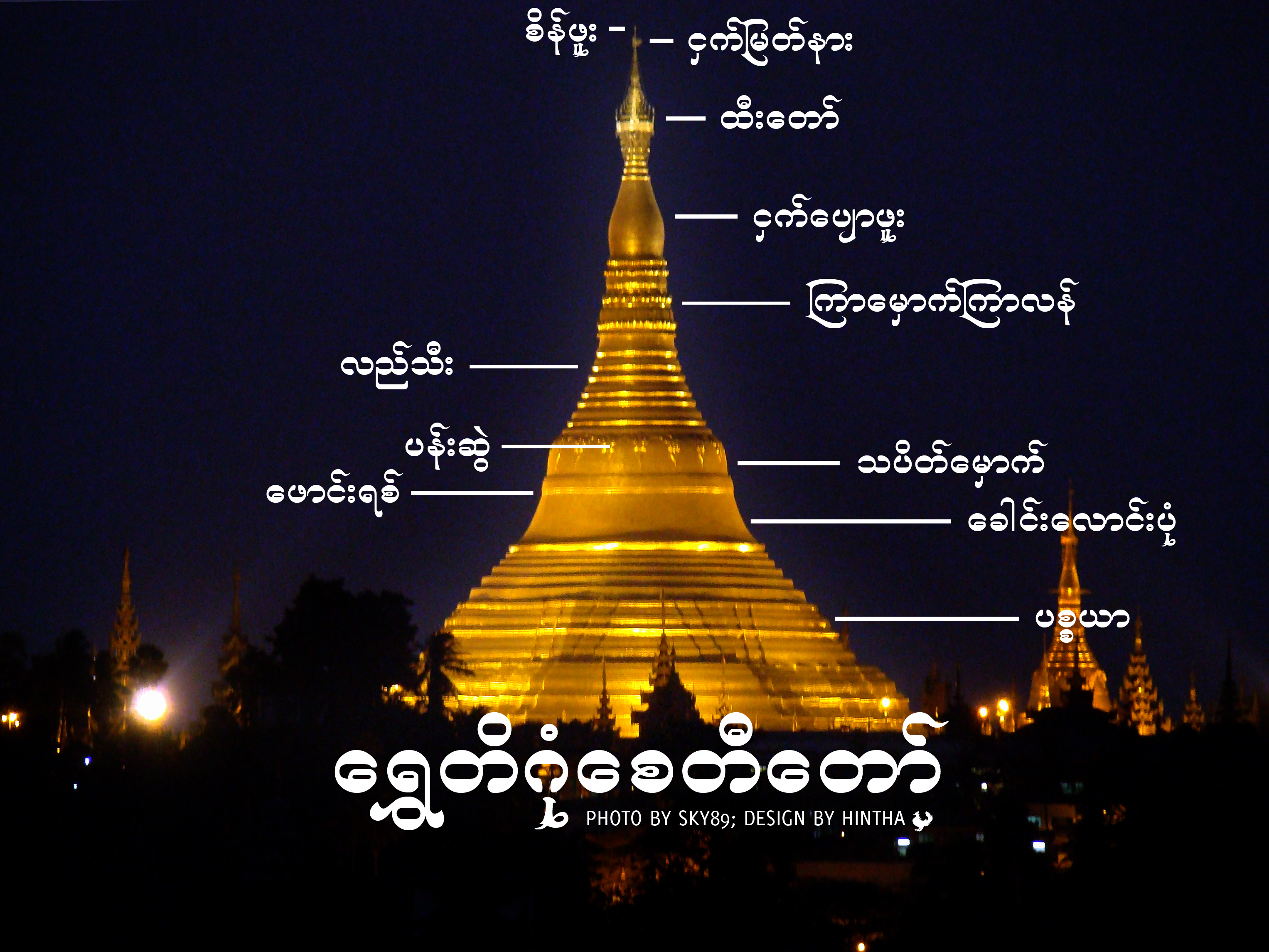 Burmese text of the different features comprising the design of Shwedagon Pagoda and other typical Burmese pagodas Design features: Diamond bud (စိန်ဖူး) Vane (ငှက်မြတ်နား) Umbrella crown (ထီးတော်) Banana bud (ငှက်ပျောဖူး) Lotus petals (ကြာမြောက်ကြာလန်) Mid-fruit (လည်သီး) Inverted alms bowl (သပိတ်မှောက်) Floral design (ပန်းဆွဲ) Turban band (ဖောင်းရစ်) Bell (ခေါင်းလောင်းပုံ) Terraces (ပစ္စယာ)